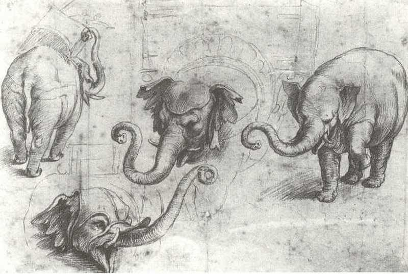 Giulio Romano (1499-1546) Drawing and projects for picture of Elephant Hanno